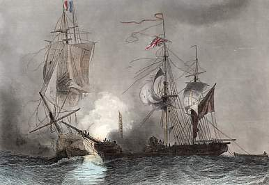 HMS Venerable vs the French Alcmène